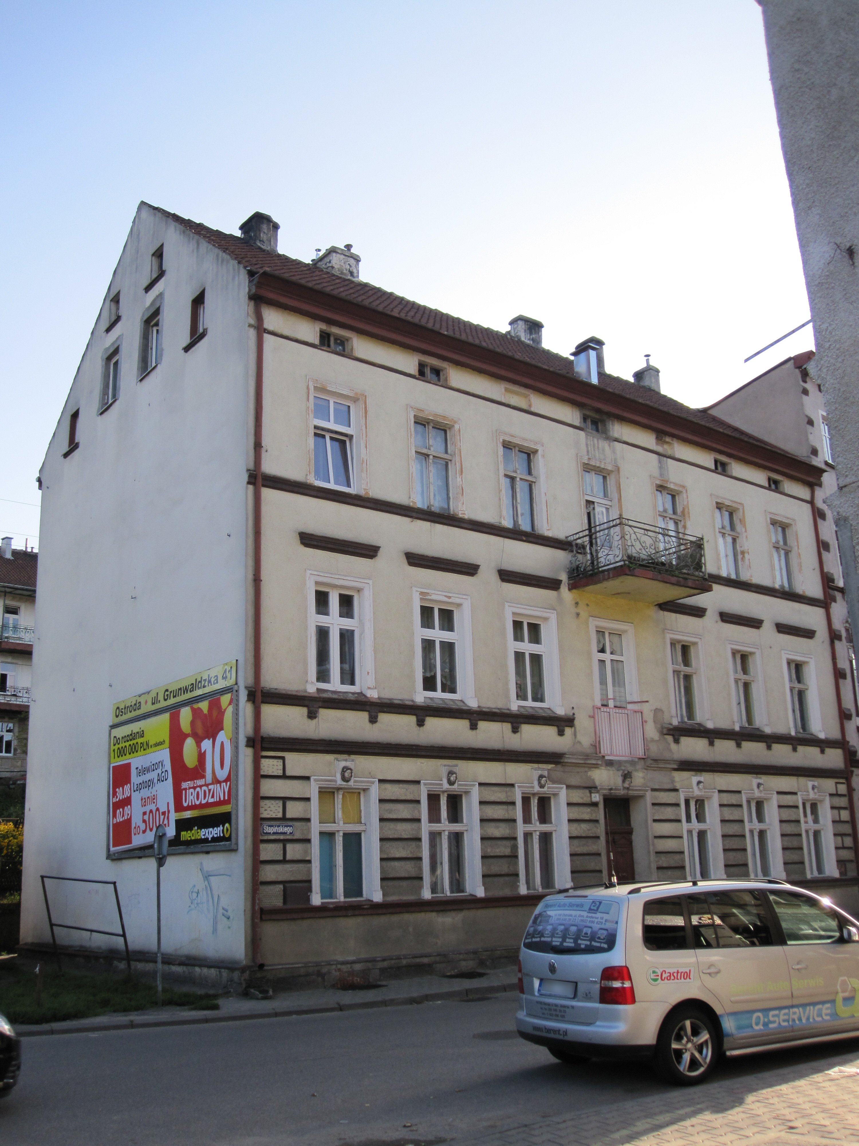 Ostróda - tenement on the 4 Stapińskiego street